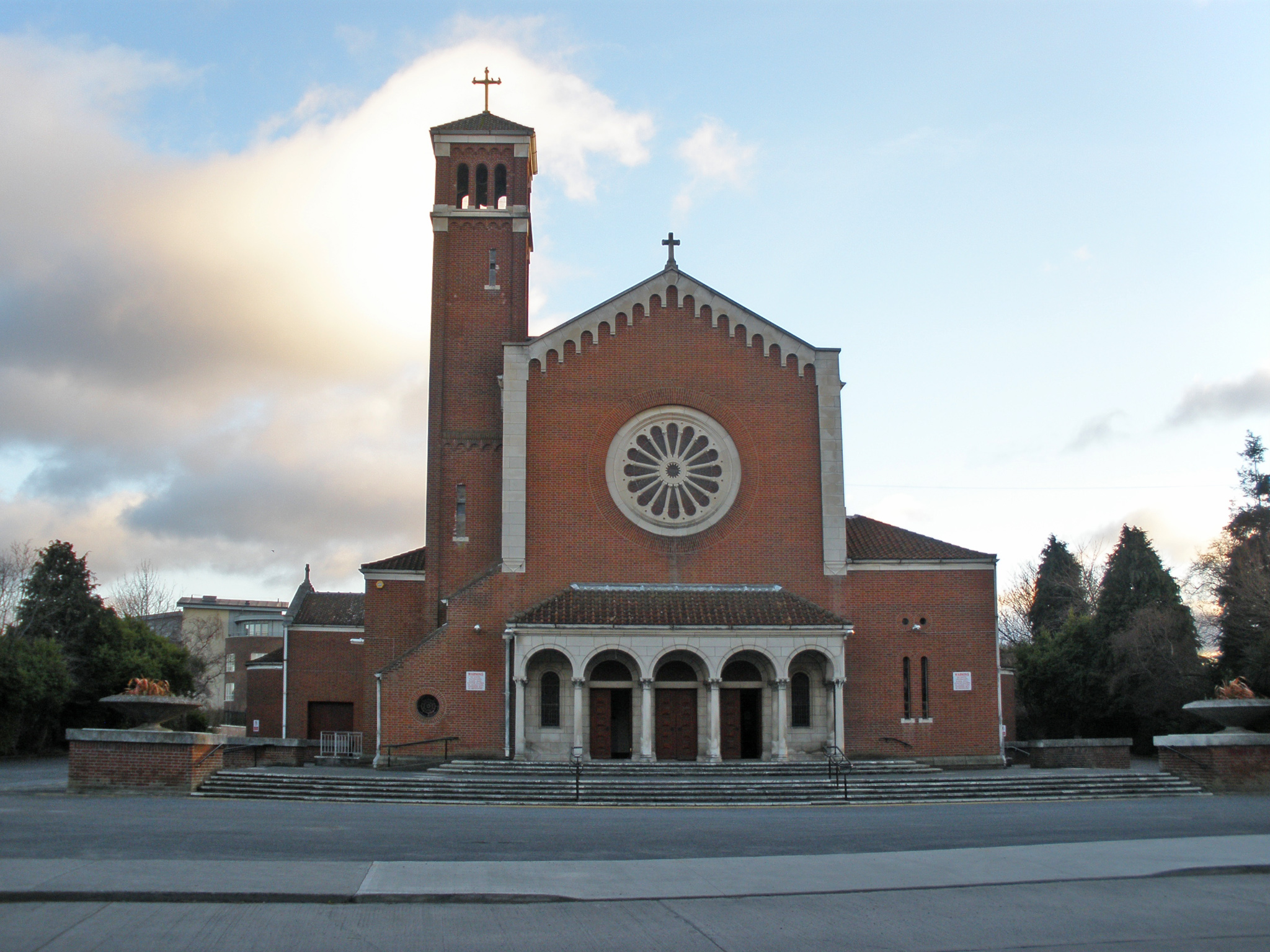 St. Pius X Church in Templeogue, Dublin, Ireland